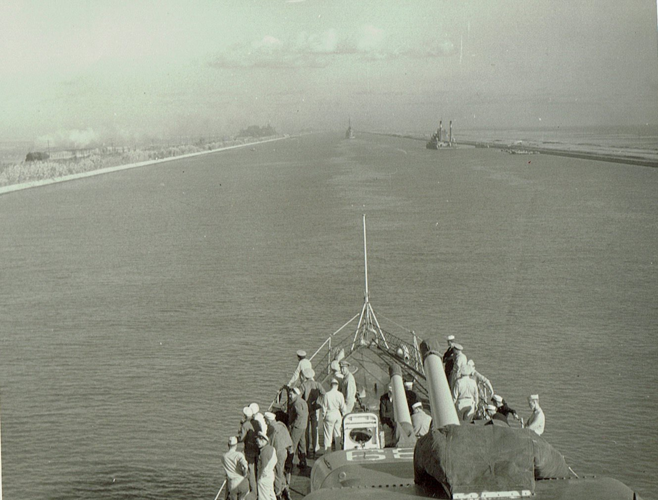 The U.S. Navy destroyer USS Wadleigh (DD-689) in the Suez Canal, in 1954, en route to Naval Station Newport, Rhode Island (USA).